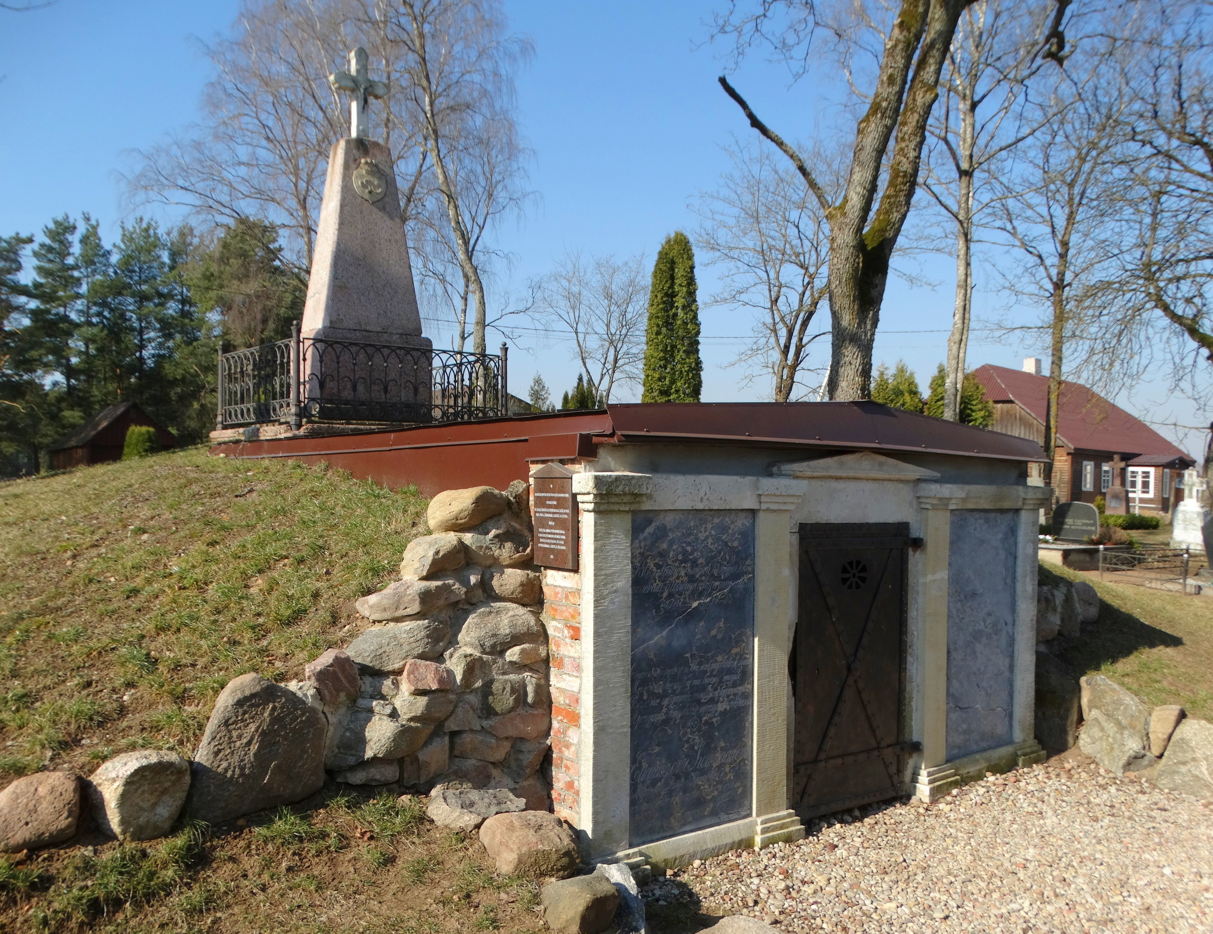 Churchyard in Kaunatava, Telšiai district, Lithuania